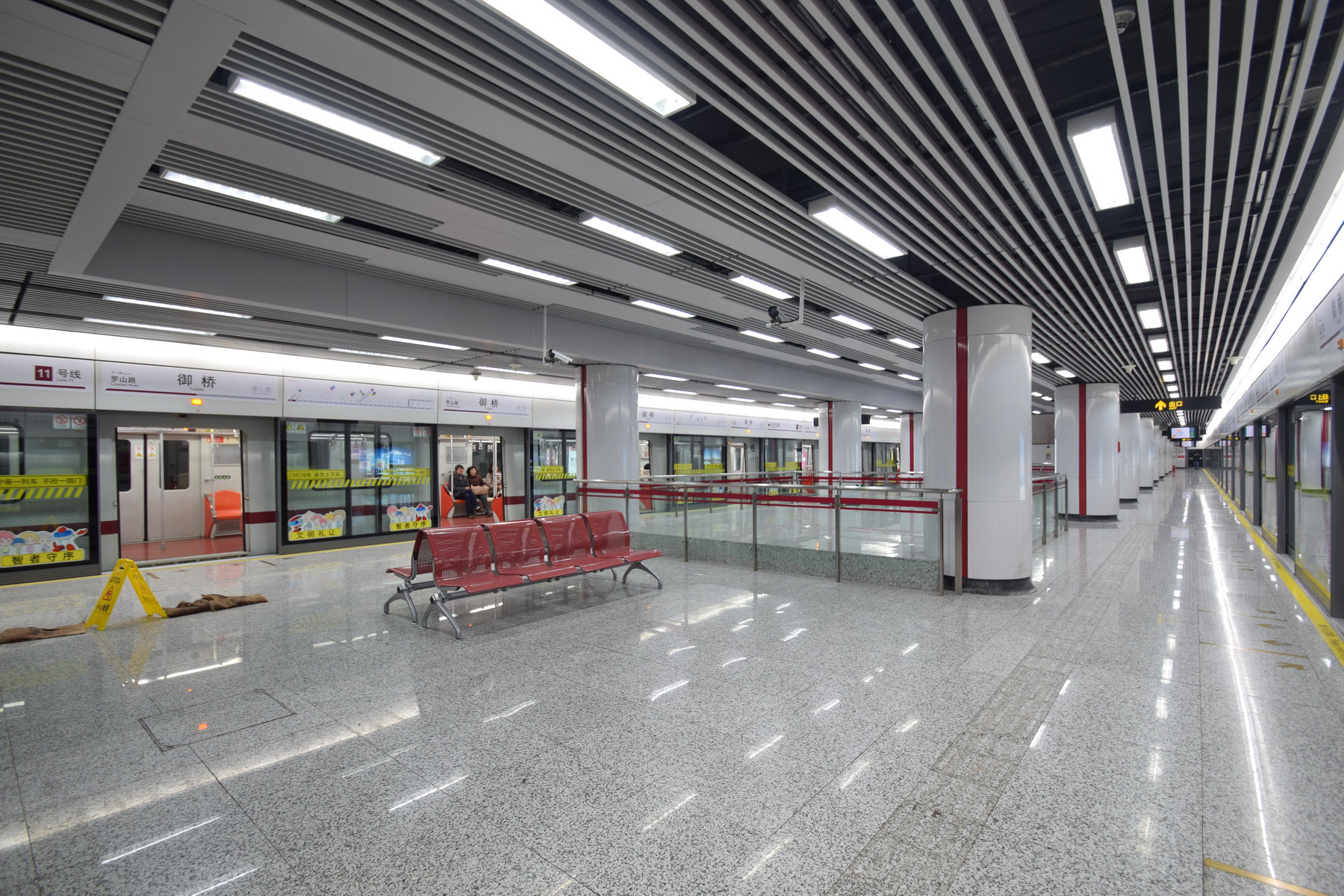 Line 11 Platform of Yuqiao Station, Shanghai Metro